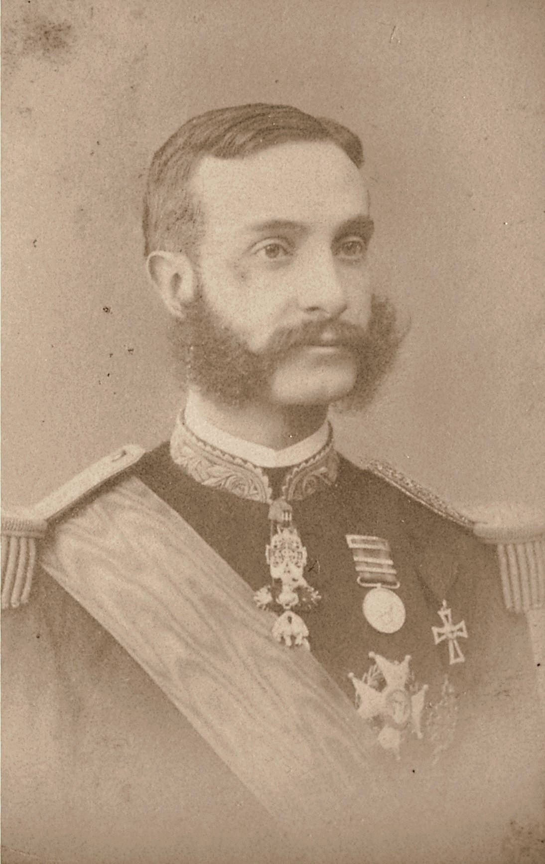 King Alphonso XII of Spain